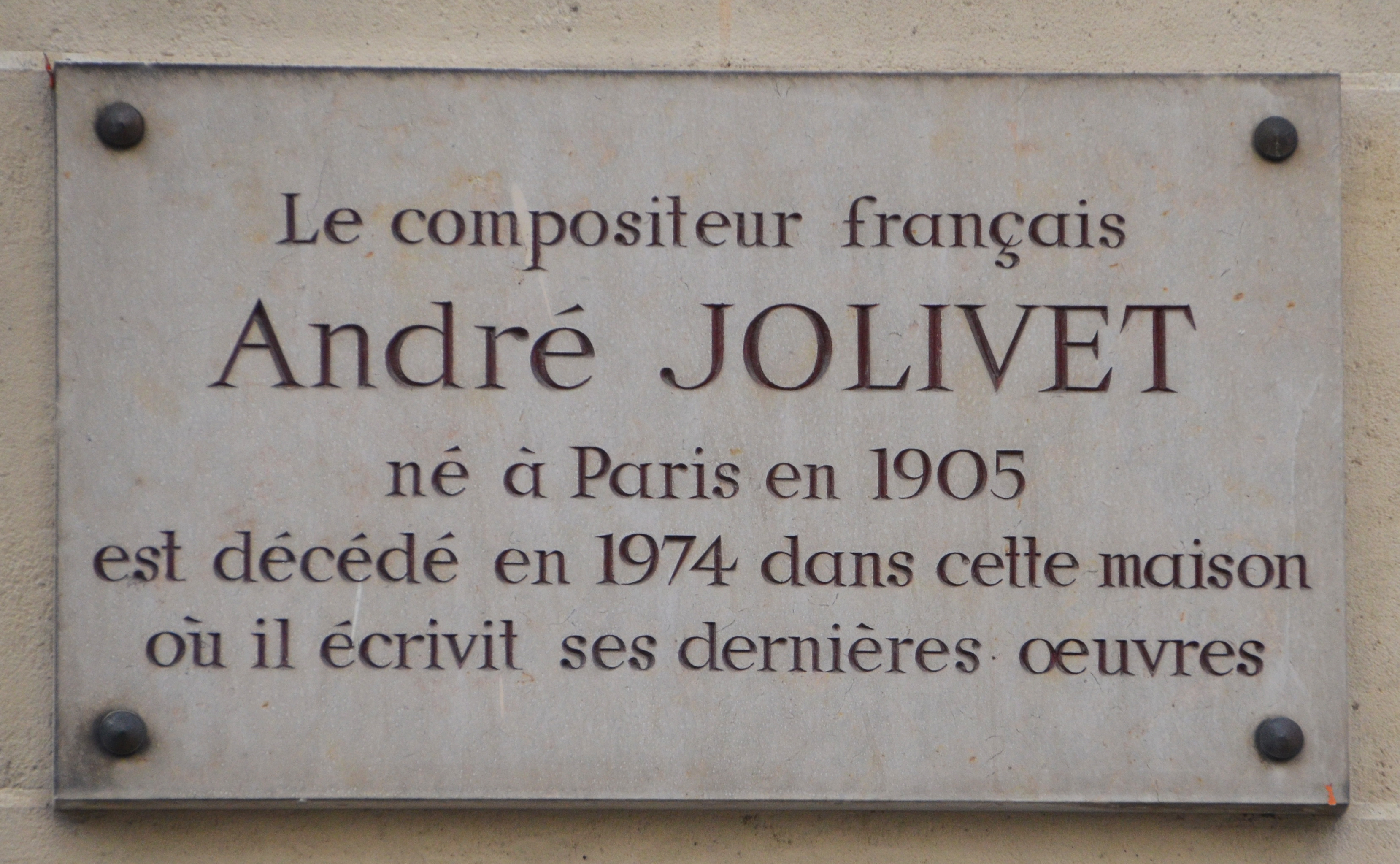 Read more about him here